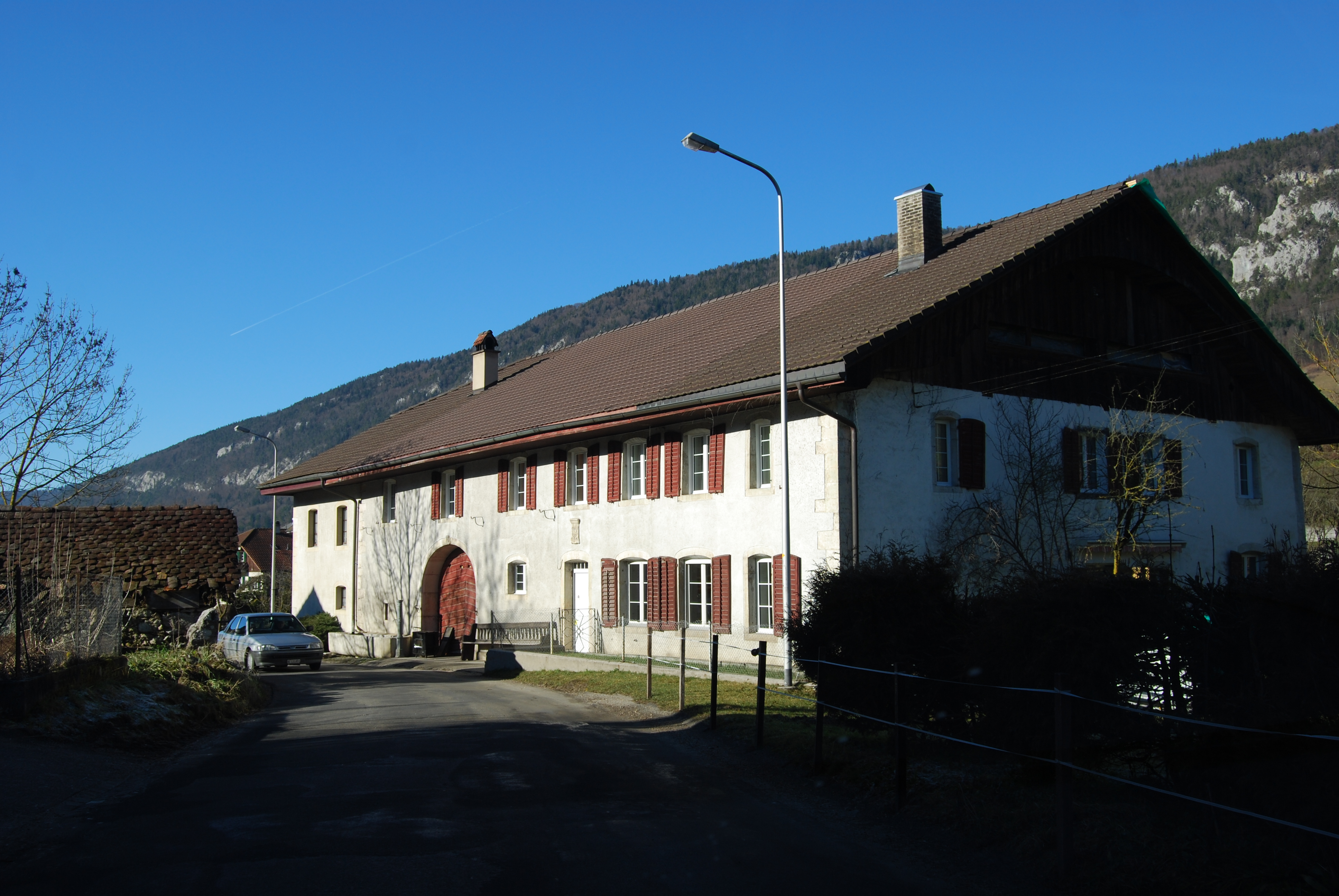 Crémines, canton of Bern, Switzerland